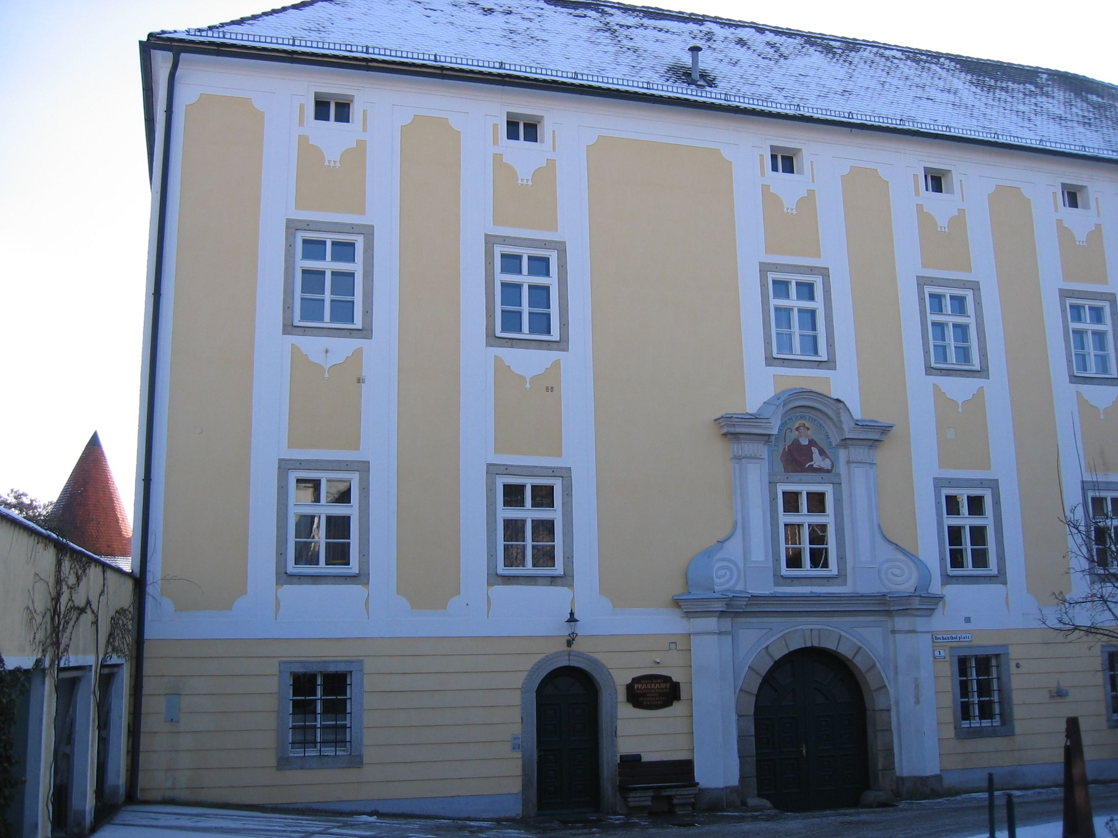 Dechanthof in Freistadt